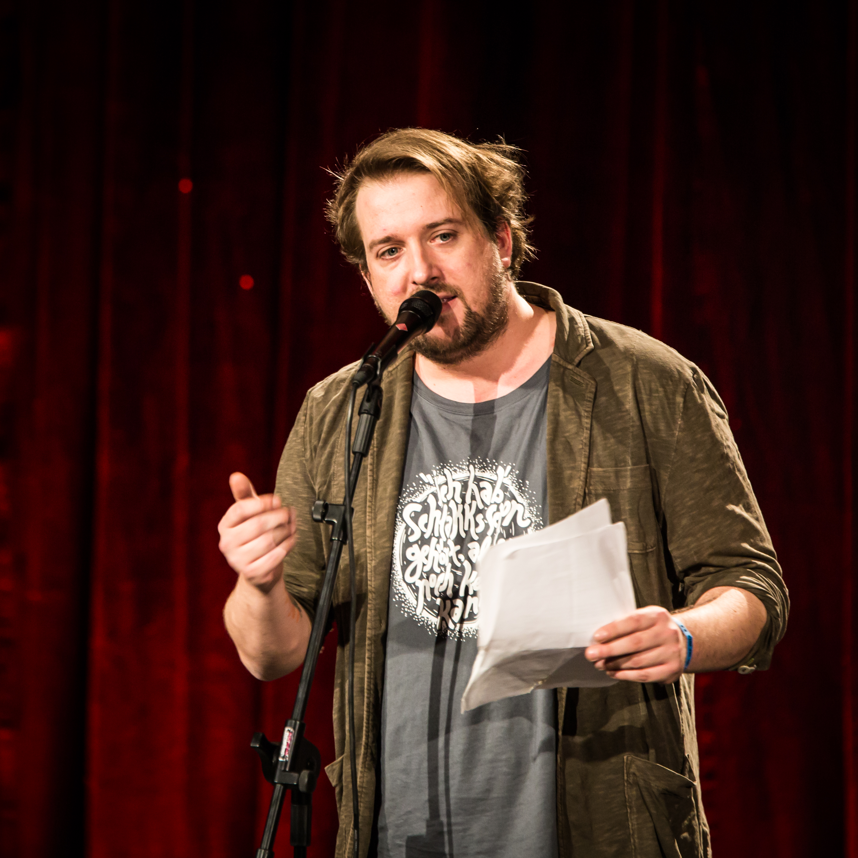 German author and slam poet Tobi Katze at the Internationale Kulturbörse Freiburg 2018